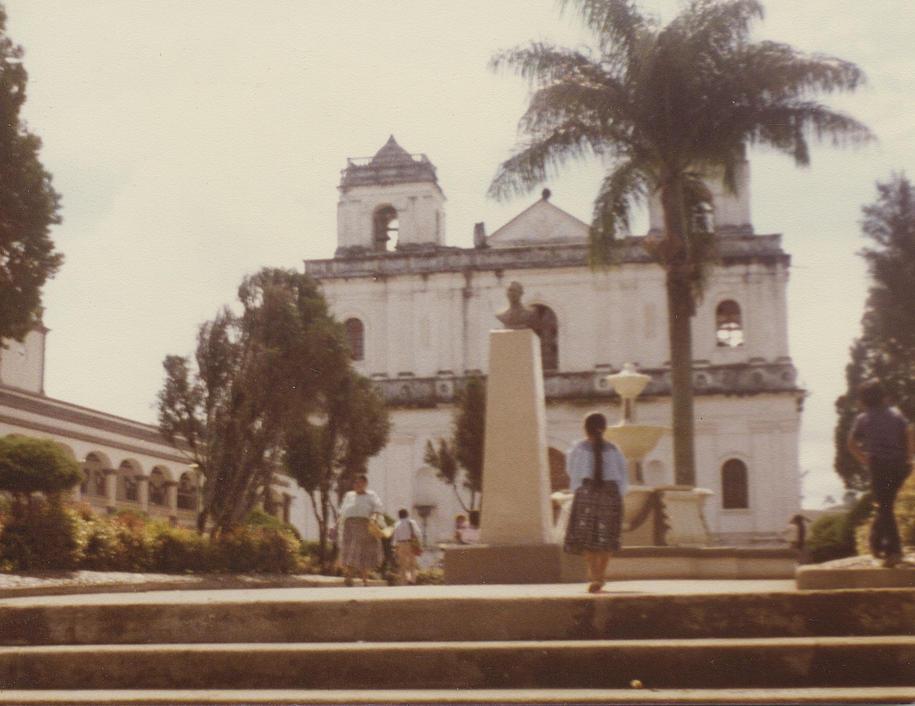 San Pedro Carcha, Alta Verapaz, Guatemala. Town square and church.